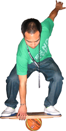 A photo showing Mikee of FBBB pulling off a grab on his CoolBoard. See more information at Sphere-and-ring boards.